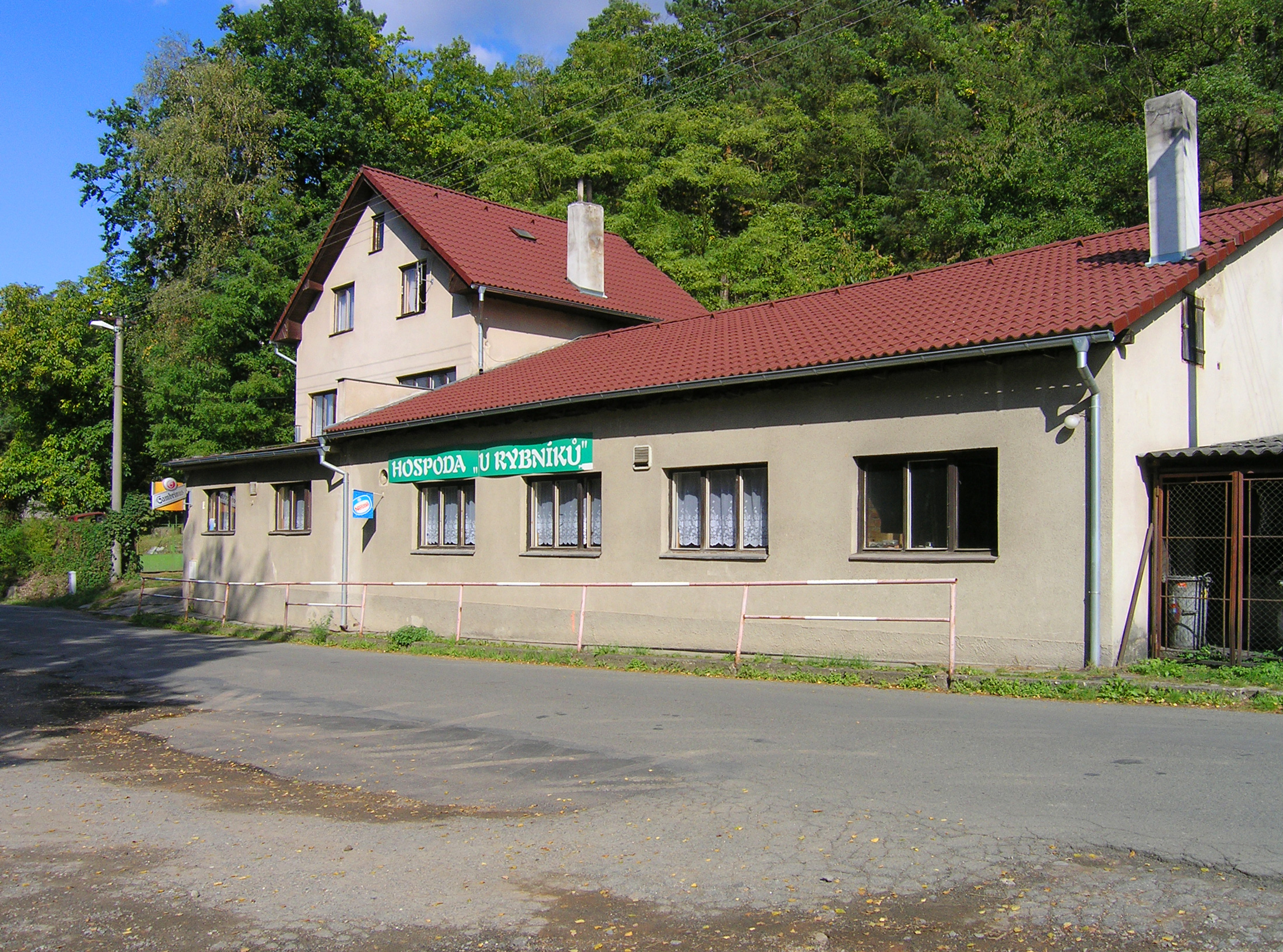 Pub in Březí, Czech Republic